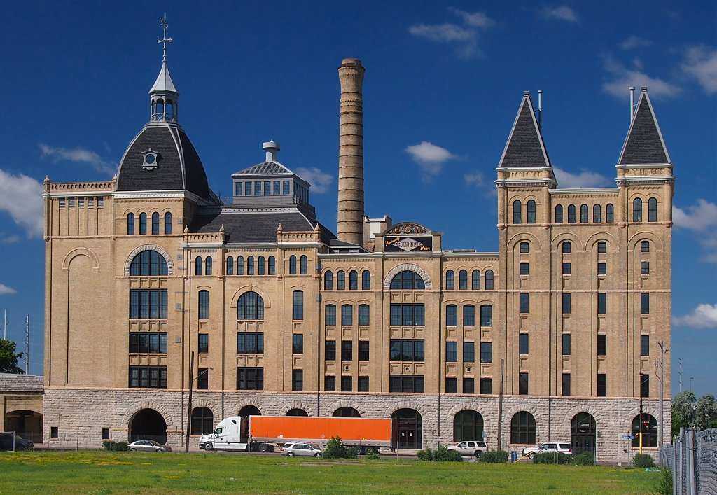 Minneapolis Brewing Company, Minneapolis, Minnesota, USA. Viewed from the northeast leaning over a damaged section of chain link fence.